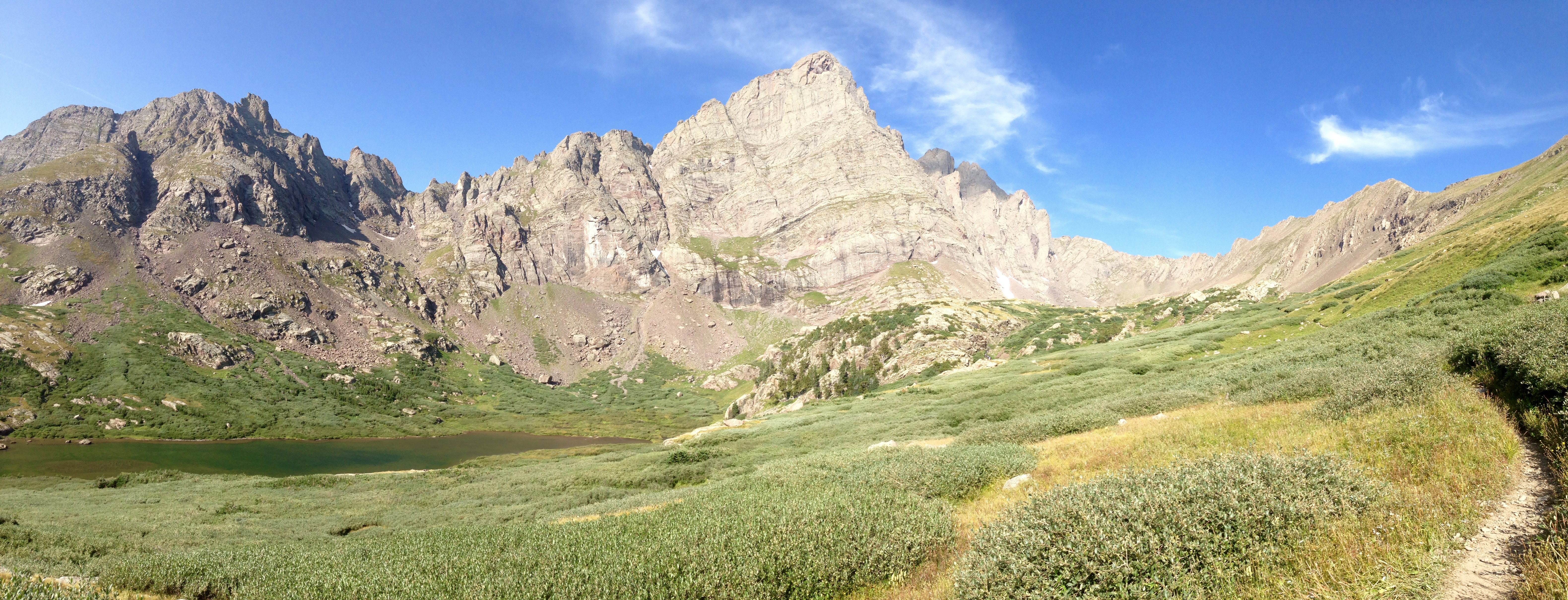 A view of the valley in the descent, almost back to camp. Broken Hand Peak, Broken Hand Pass, Crestone Needle, Crestone Peak, and Lower South Colony Lake. The thing on the far right that looks like a trail is the trail to Humboldt's West Ridge.